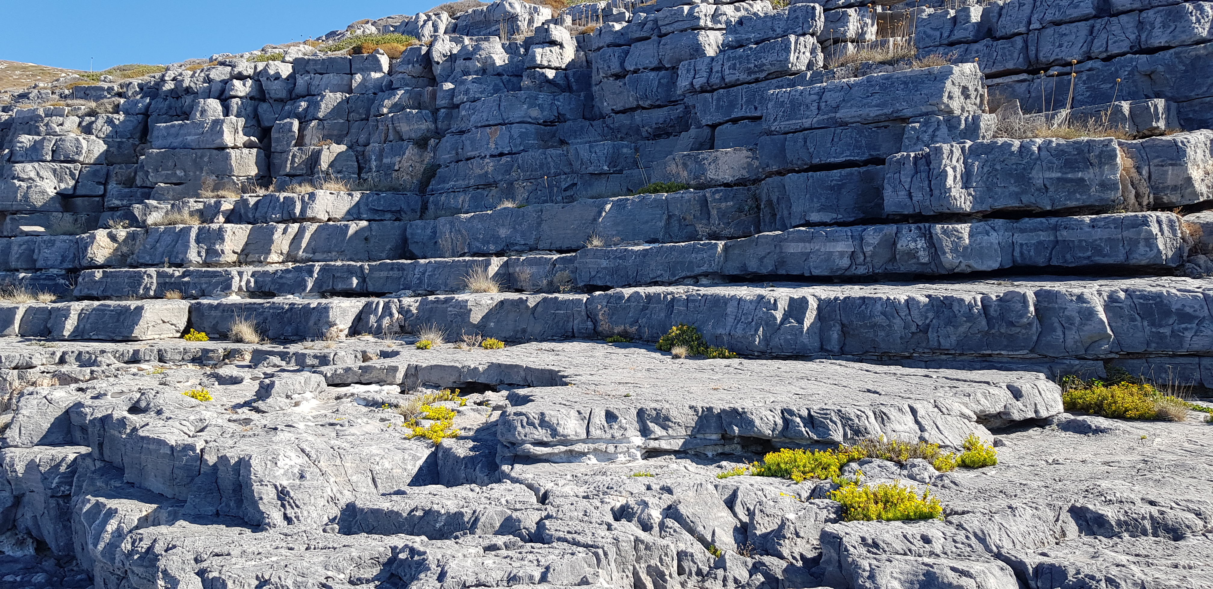 Mani Tainaron Greek "grey to black" marbles (Nero Antico)